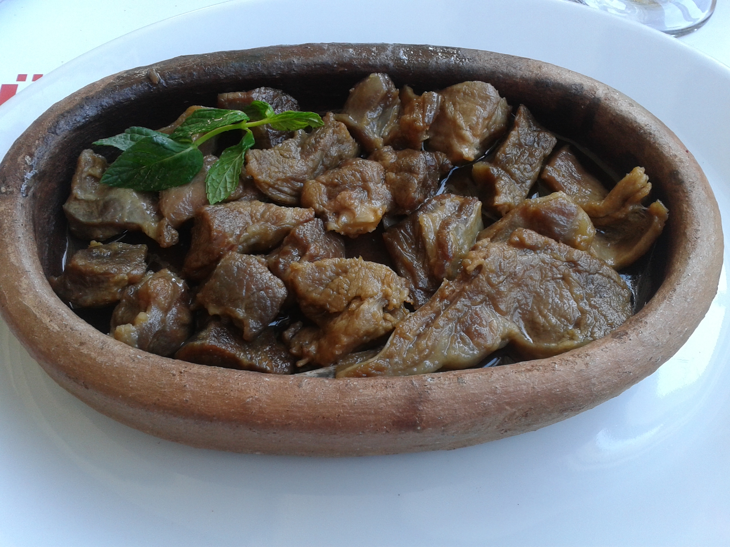 "Kavurma" made with young male goat meat;Ankara, Turkey.